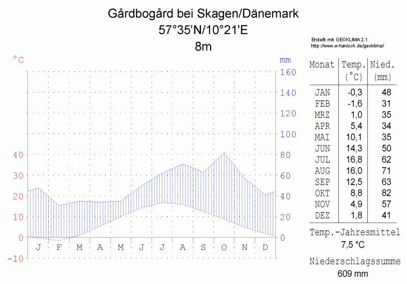 climate chart in the format by Walther and Lieth, metric, °Celsisus and millimeters, made with Geoklima 2.1